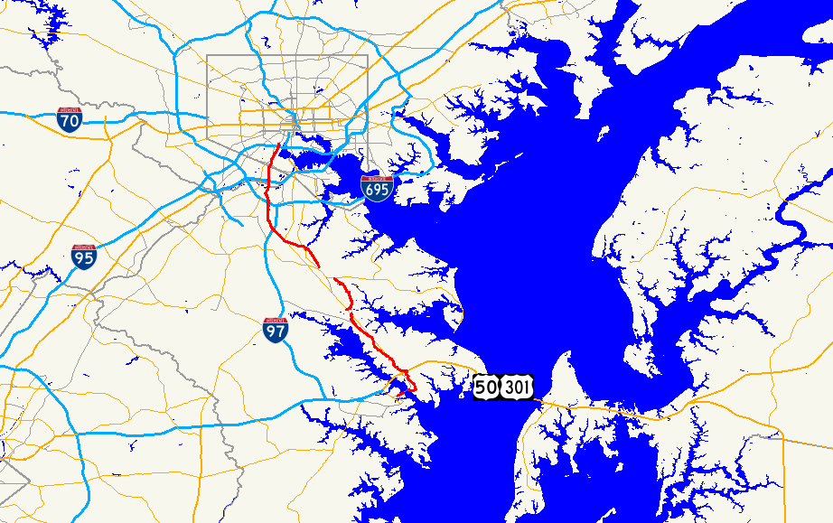 Map of Maryland Route 648